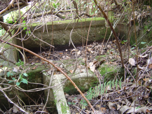 Arthez - houn Caubin - lavoirs